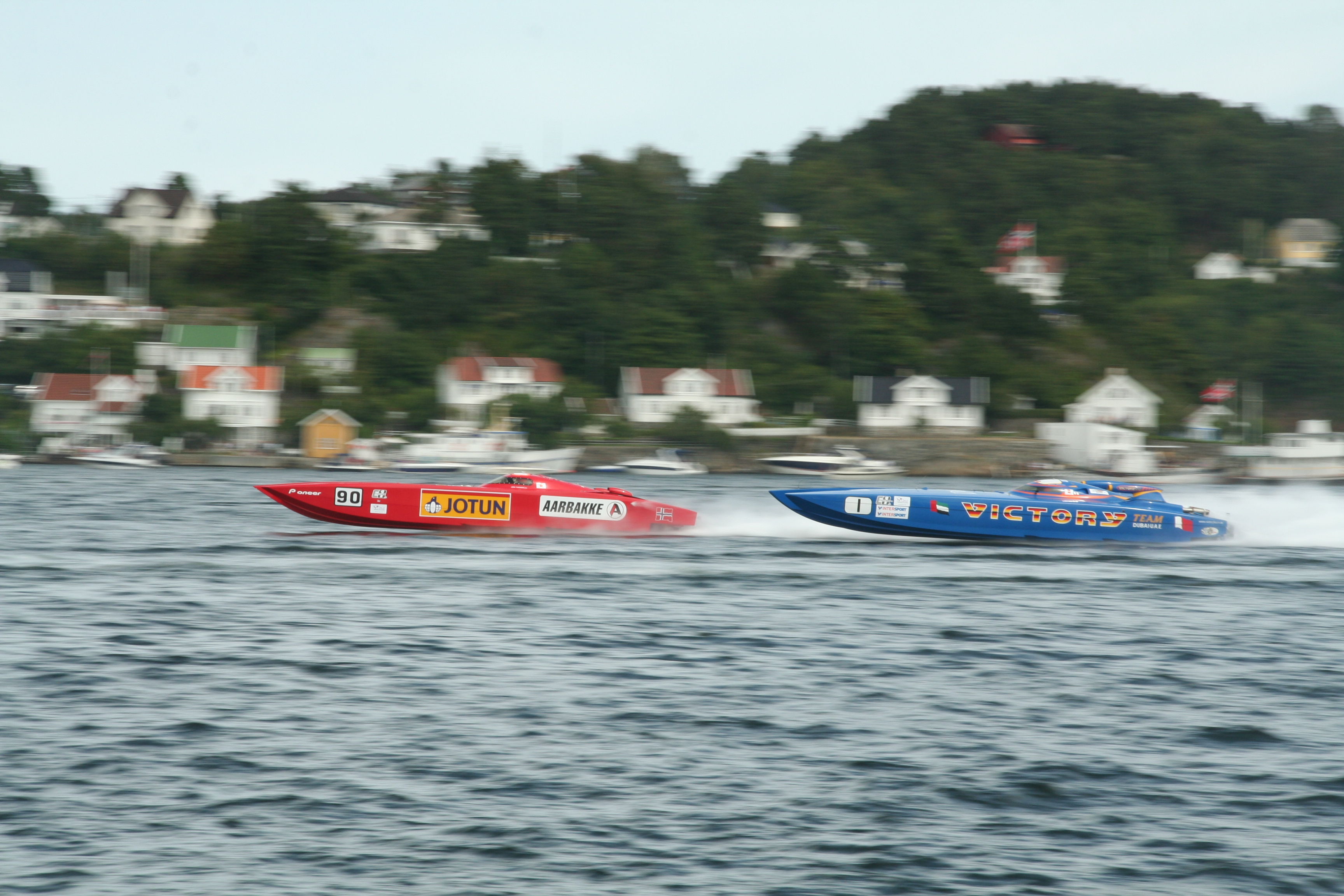 Norwegian Grand Prix powerboat racing, Arendal, Norway July 2008. "Jotun 90" with Jørn Tandberg and Inge Brigt Aarbakke passing "Victory 1" with Mohammed Al Marri and Nadir Bin Hendi.